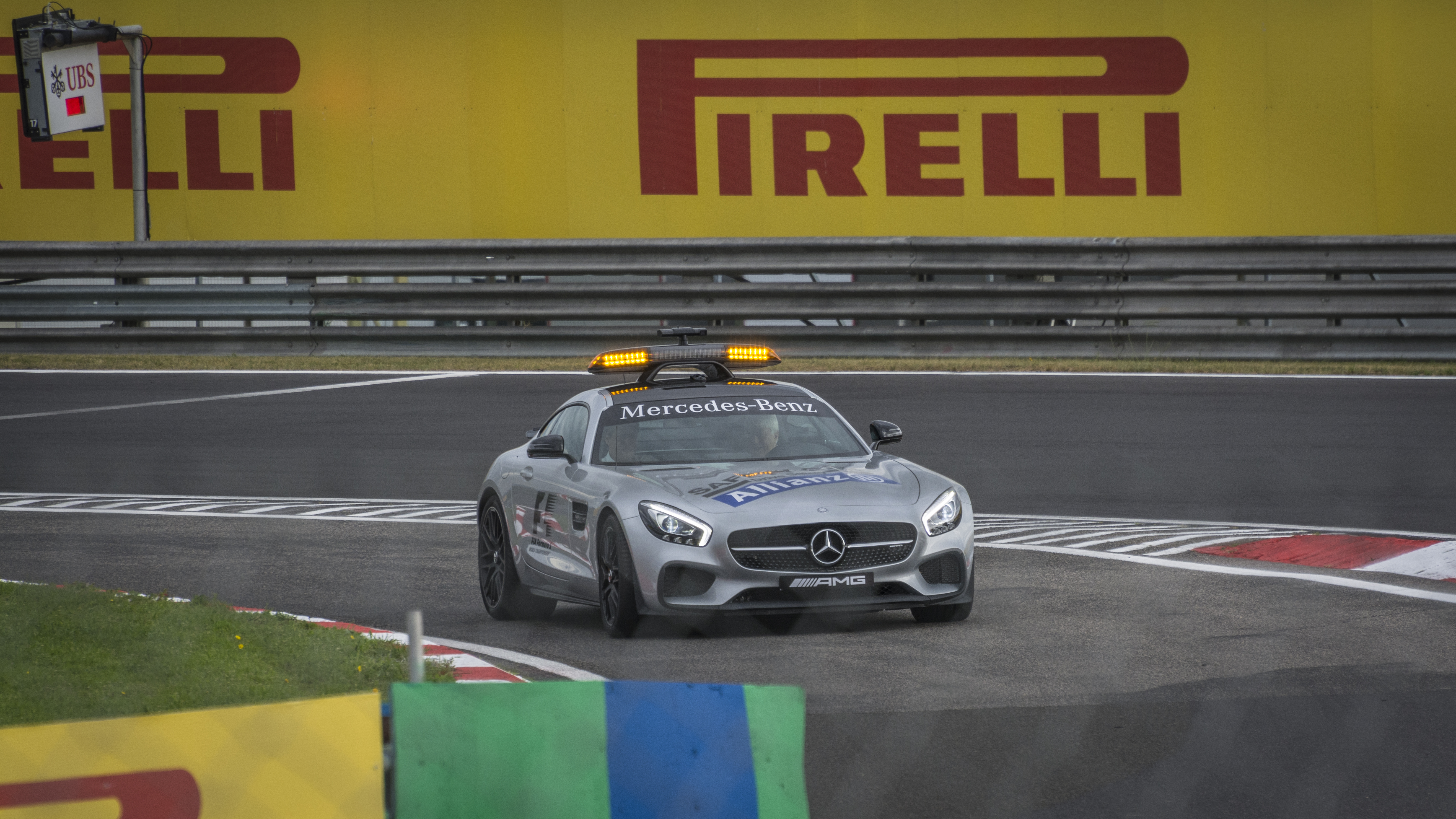 The Safety Car coming into the pits at the 2015 Hungarian Grand Prix